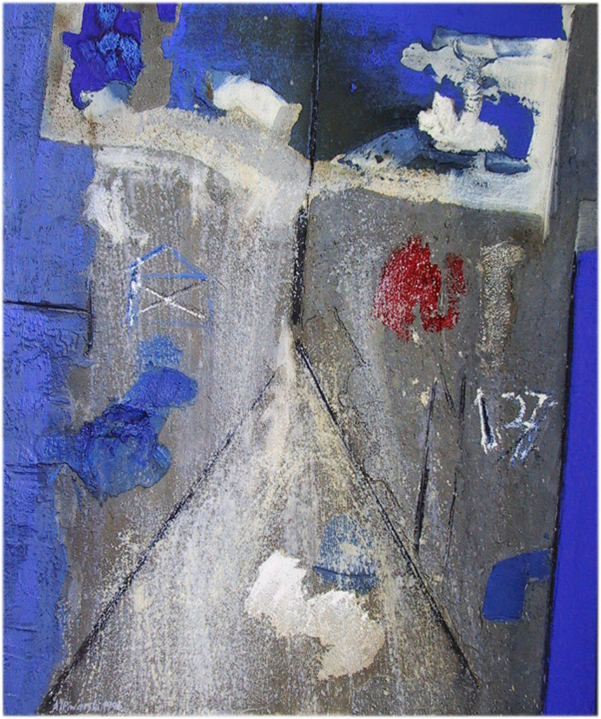 Andrzej Jan Piwarski, Rustykalna ściana, oil on canvas, 120 x 100 cm, 1996.